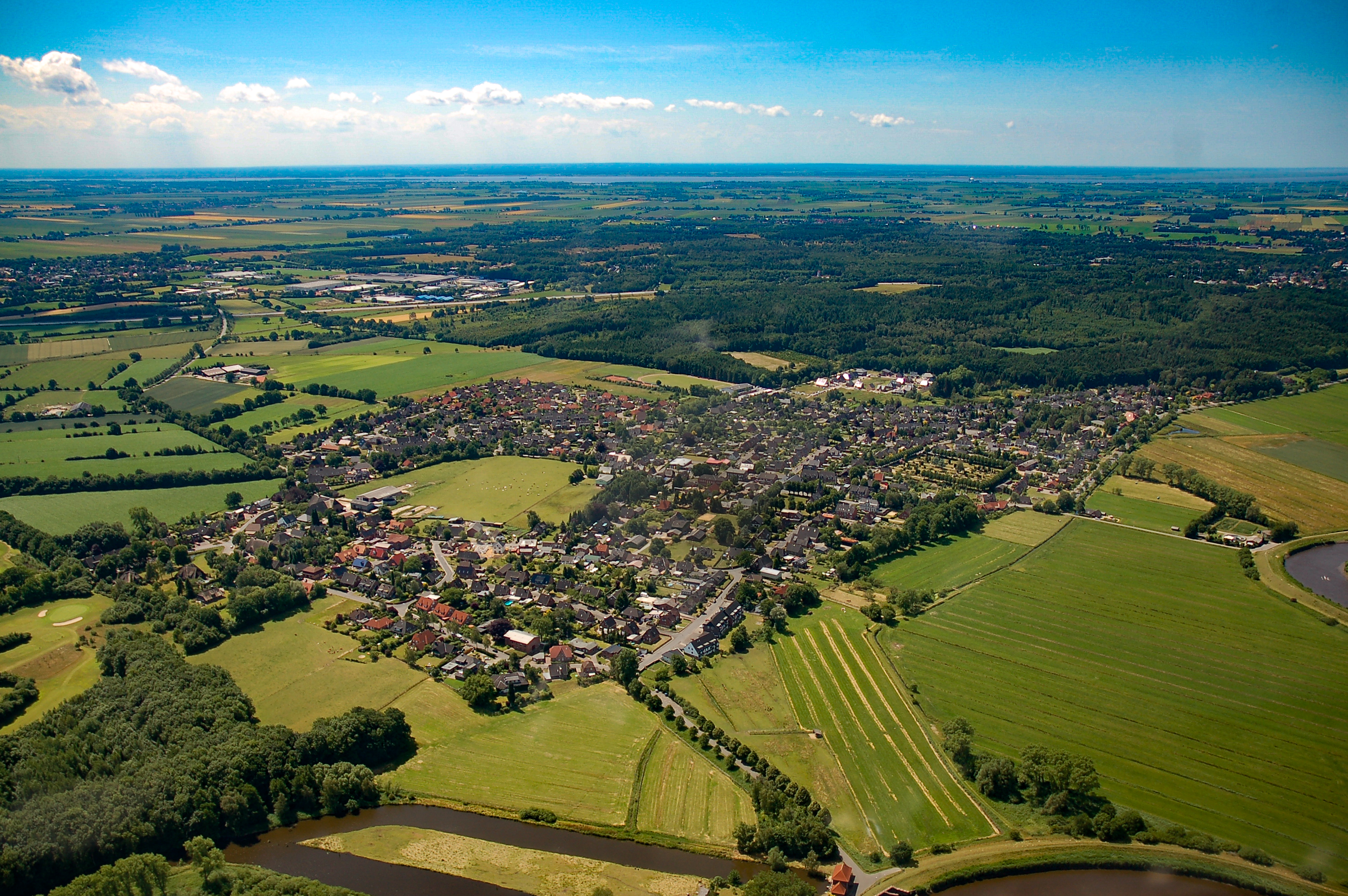 Village Münsterdorf near Itzehoe